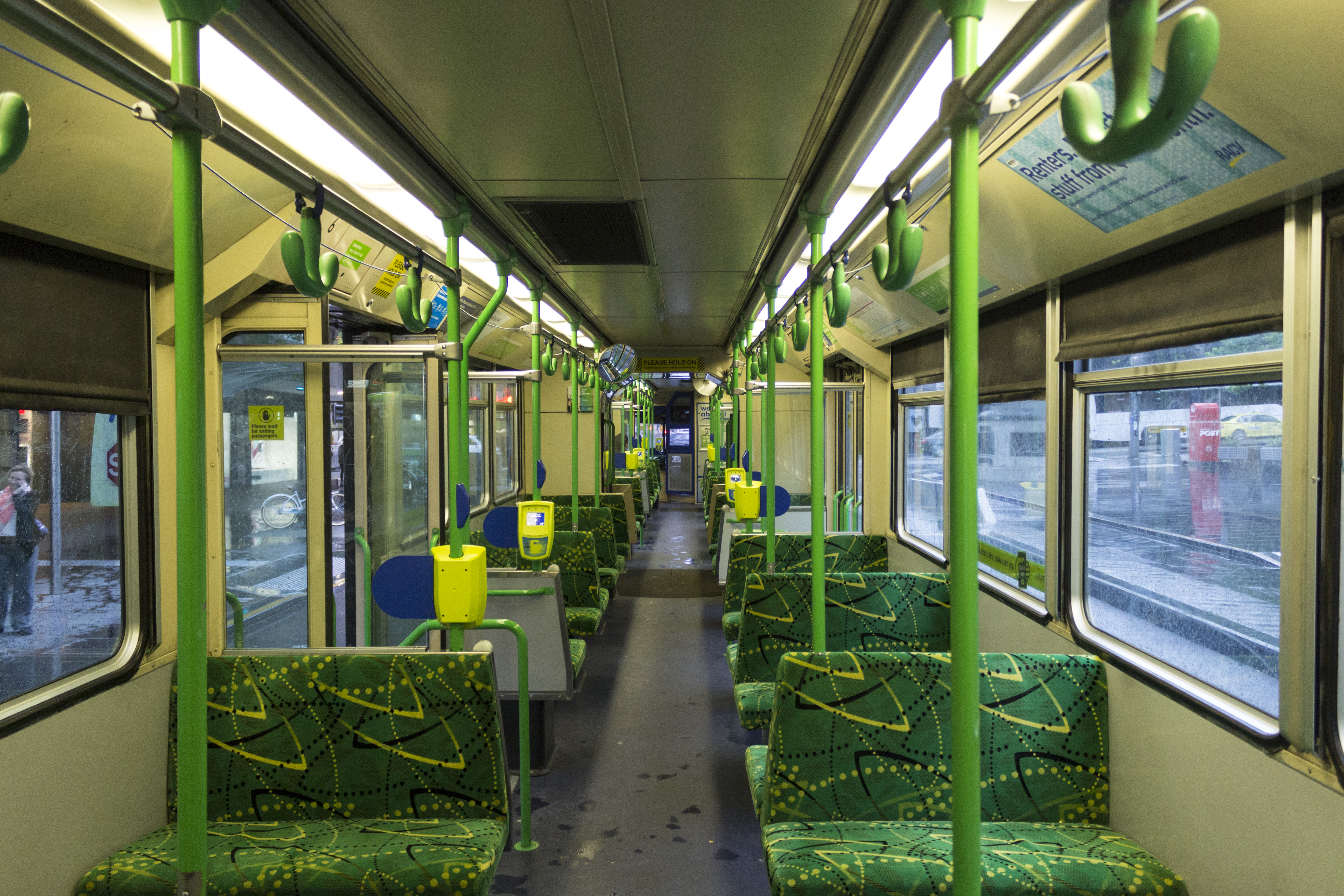 B2-class Melbourne tram interior, 2013. Note that this B2 still has all seats, pre 2013-2014 modifications. Fitted with myki and no metcard.